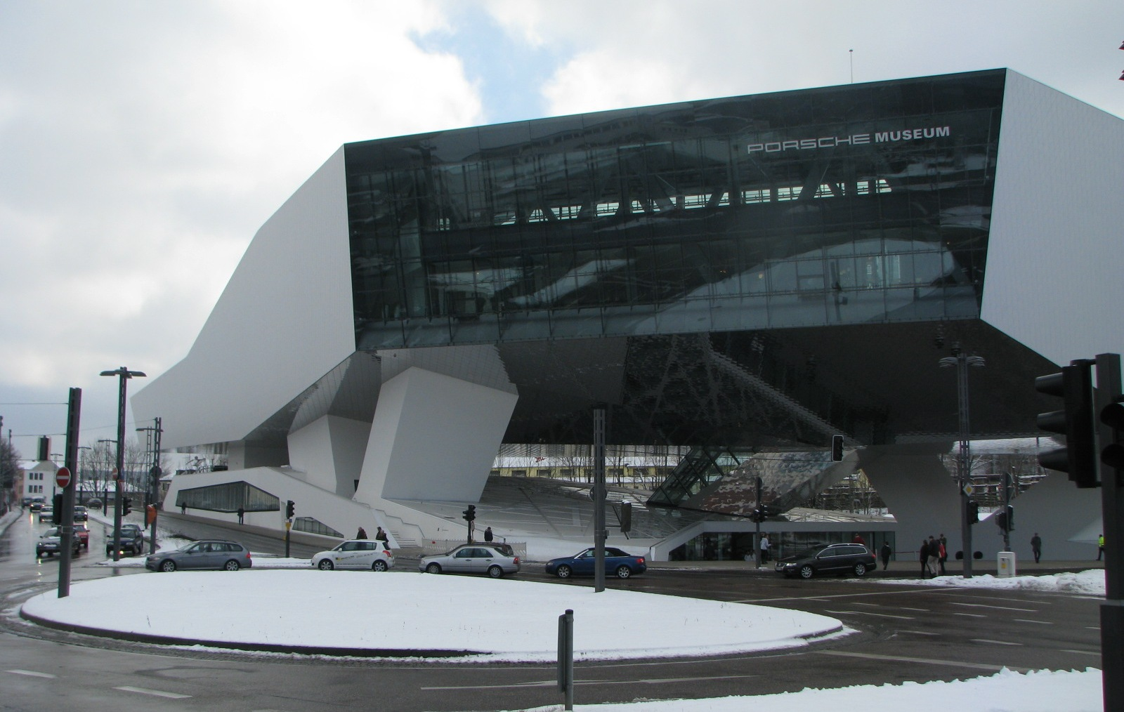 Main Entrance of the 2009 Porsche-Museum viewed from Porsche-Platz in Winter